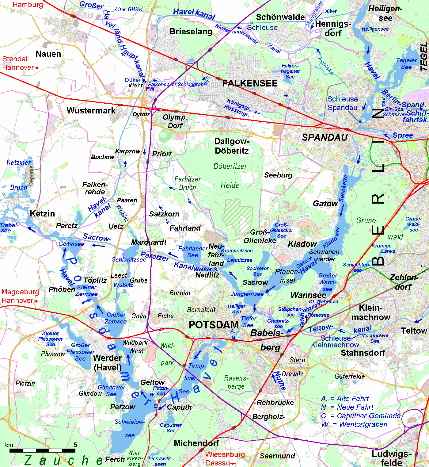 Waterways and Railways around Potsdam and Berlin-Spandau This map may be incomplete, and may contain errors. Don't rely solely on it for navigation.